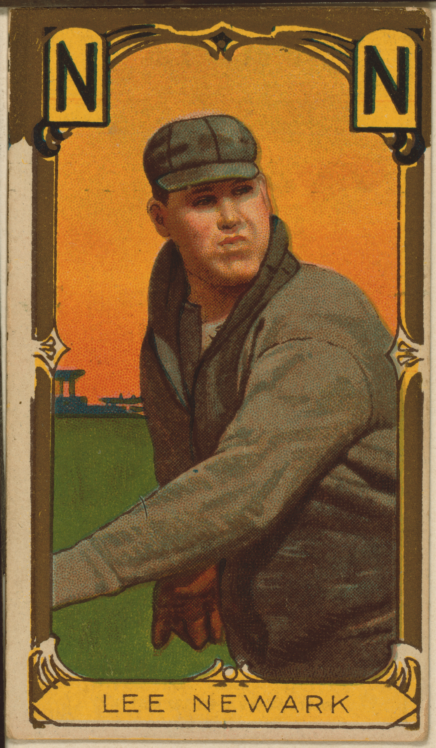 T-205 series tobacco card of Major League Baseball player Wyatt "Watty" Lee, in uniform with the Newark Indians of the Eastern League.